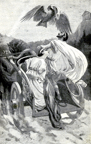 This elementary history of Rome presents short stories of the great heroes, mythical and historical, from Aeneas and the founding of Rome to the fall of the western empire. Around the famous characters of Rome are graphically grouped the great events with which their names will forever stand connected. Vivid descriptions bring to life the events narrated, making history attractive to the young, and awakening their enthusiasm for further reading and study.